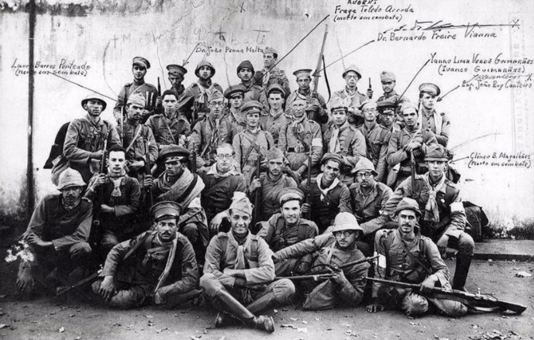 Batalhão 14 de Julho, em Itapetining-SP.